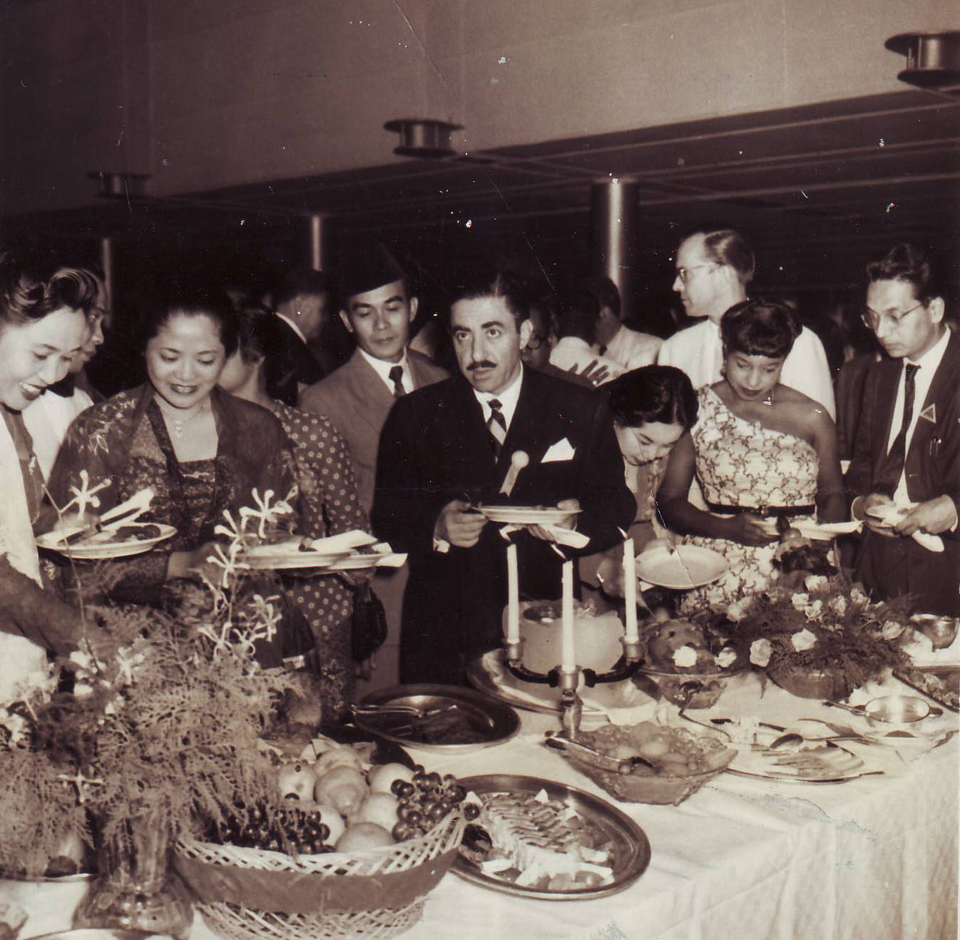 Gala Dinner for the Asian-African Conference in Savoy Homann Hotel, Bandung, on April 19th 1955.